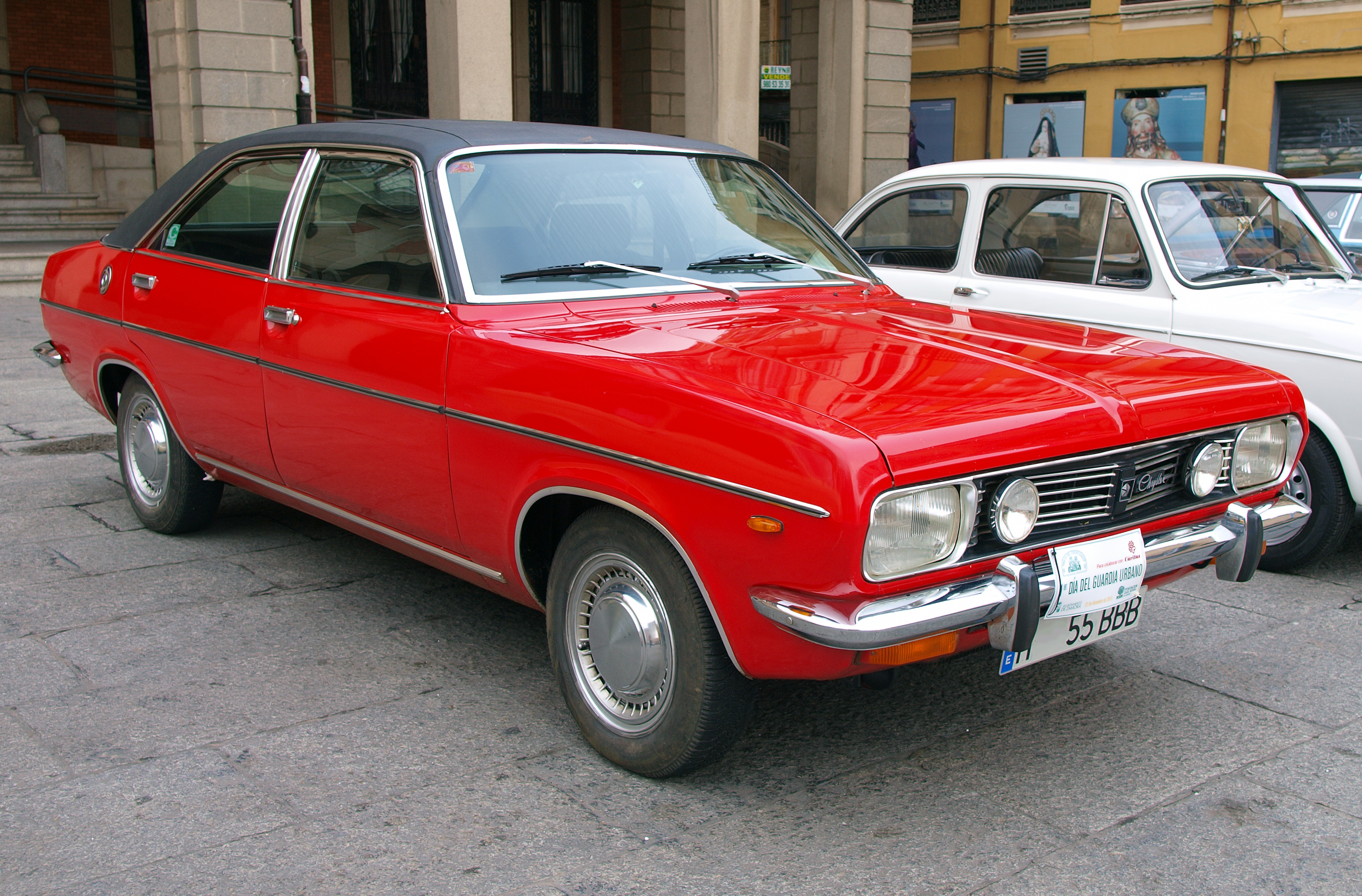 Barreiros spanish built Chrysler 180 Luxe Diesel, at exhibition in Zamora (Spain) in december 2013